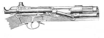 Cross section of the Jarmann M1884 repeter, taken from old Norwegian Army manual. Copyright expired in accordance with Norwegian copyright law, since the manual is older than 70 years (Chapter 2, Sect 41 (link goes to PDF)).